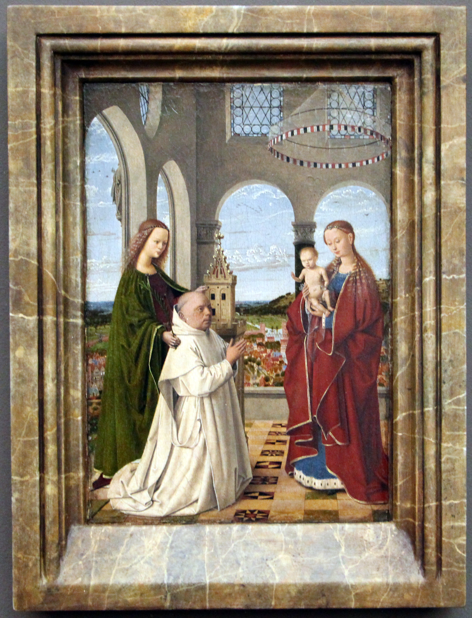 Early Netherlandish paintings in the Gemäldegalerie, Berlin